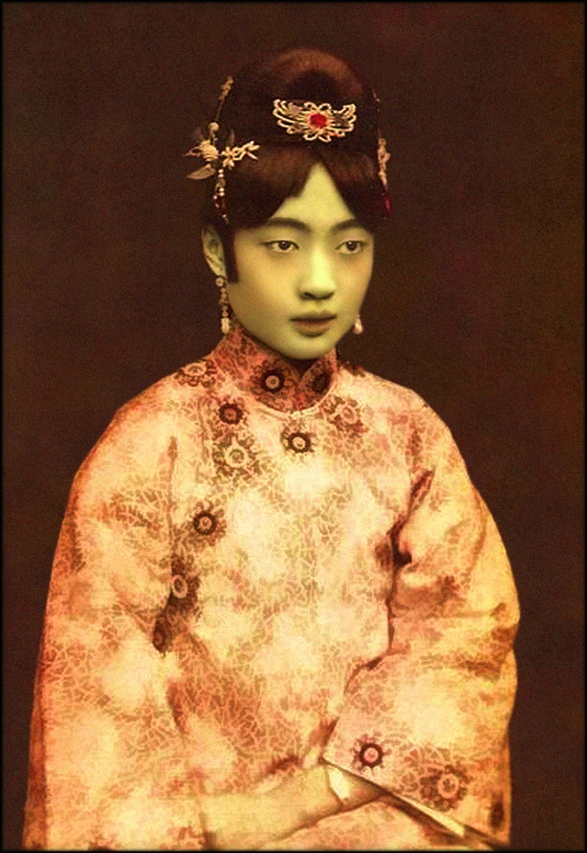 Entitled: Empress Gobele Wan-Rong [c1920-1940] by an unknown court photographer [RESTORED]. I retouched out spots, increased the contrast, and intensified the saturation of what looked to be a hand tinted original. One of the sadder stories that arose from the end of the Qing monarchy was the story of Wan Rong, otherwise known as the Last Empress of China 婉容皇后. She was chosen at the age of 17 to marry a powerless monarch. This beautiful well educated girl from one of Manchuria's best families was to be turned into a wasted emotionally wrecked drug addict by her loveless marriage in 1922 to the last emperor of China, Puyi 溥儀. Cast by the same ill political winds that buffeted her husband, she was rumored to have had an illicit affair with her driver, resulting in a scandalous pregnancy that was hushed up with the murder of the delivered baby and the exile of the paramour. Following the defeat of the Japanese empire and their lost hold of Manchuria, she eventually fell into the hands of communist forces. After a short period, she died in prison reportedly from a combination of malnutrition and opium withdrawal in 1946, at the age of 39. Despite Wan Rong's seeming fairy-tale marriage to Qing royalty, it was to bring her nothing but pain, suffering, humiliation, and an unfortunate early death.